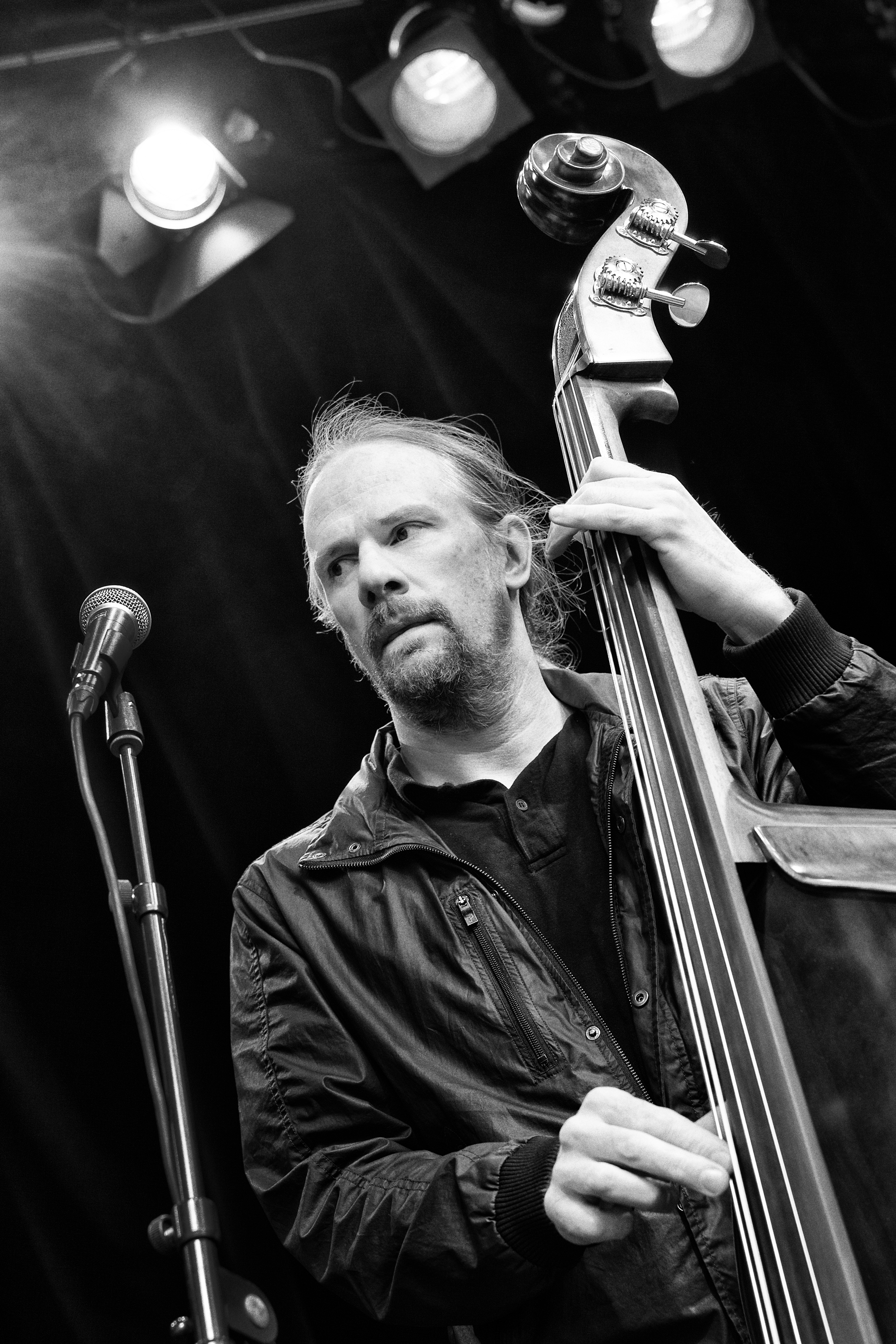 Anders Johansson playing the upright bass.